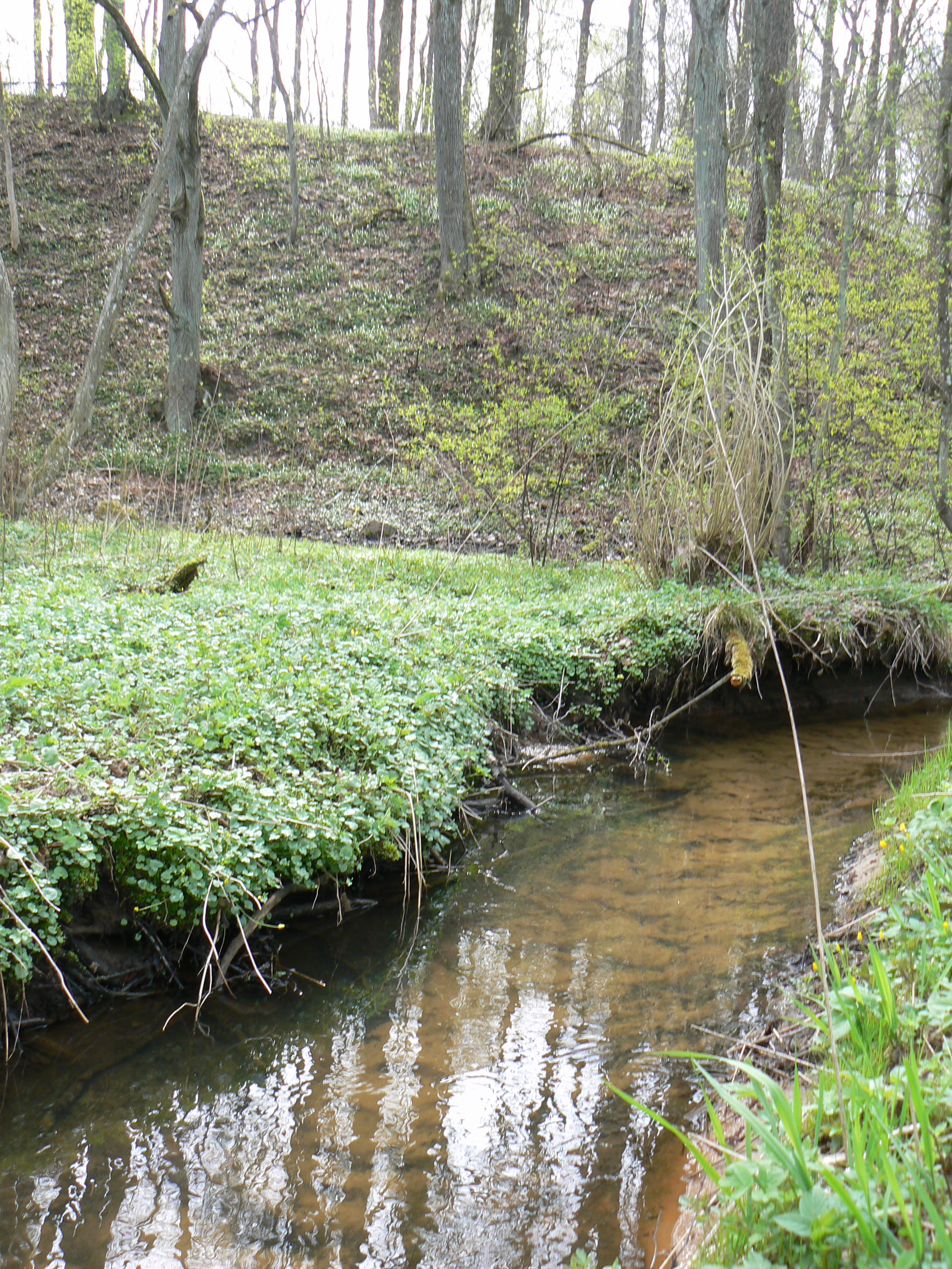 Purmalė + hillfort Purmalių piliakalnis